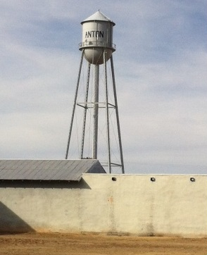 Water tower in the town of Anton, Texas, taken from the southern side